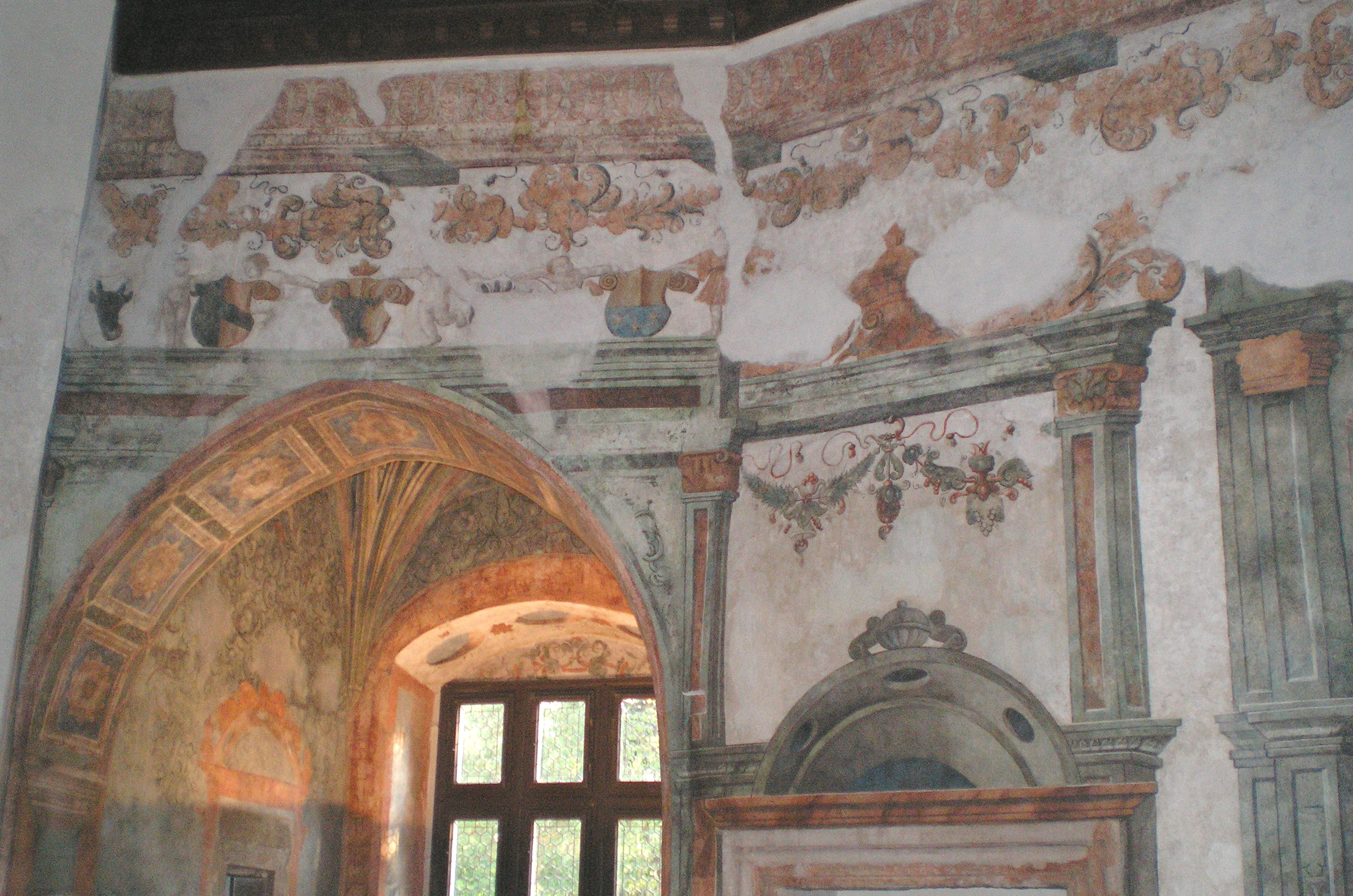 Pardubice castle, wall painting